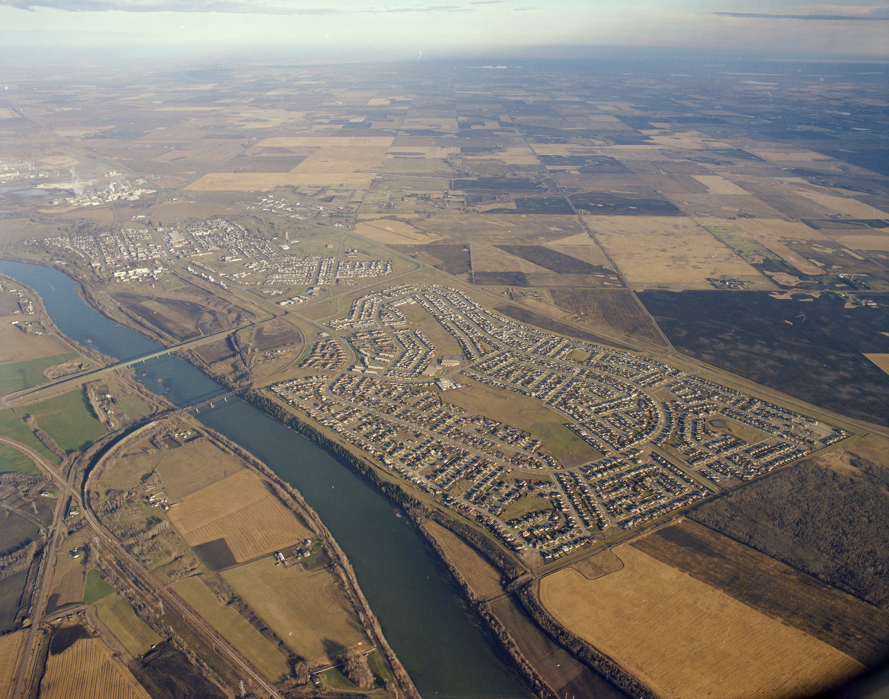 Aerial view of Fort Saskatchewan, Alberta, in 1980. This picture was taken from the west.